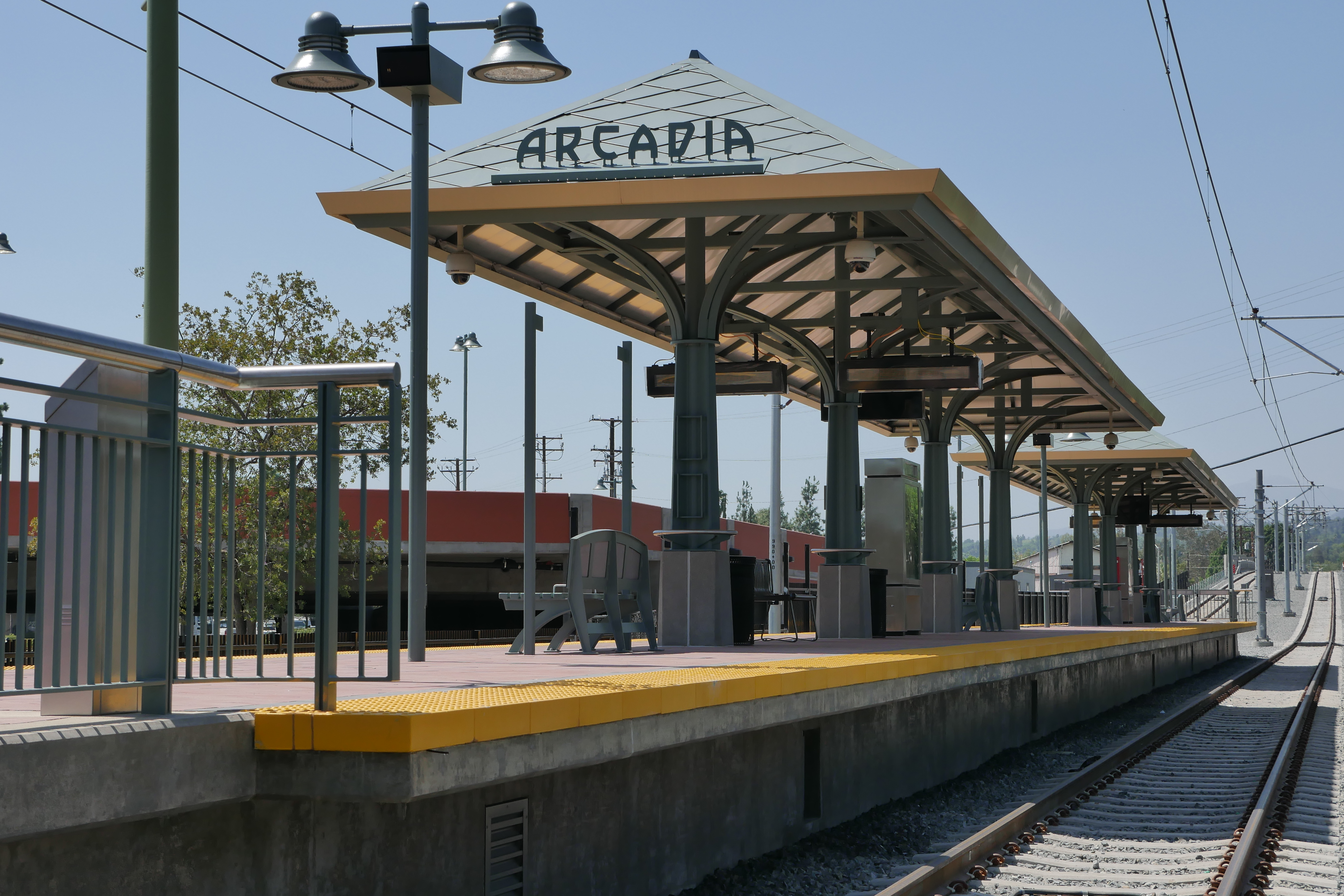 This is a photo of Arcadia station on the LACMTA Gold Line.